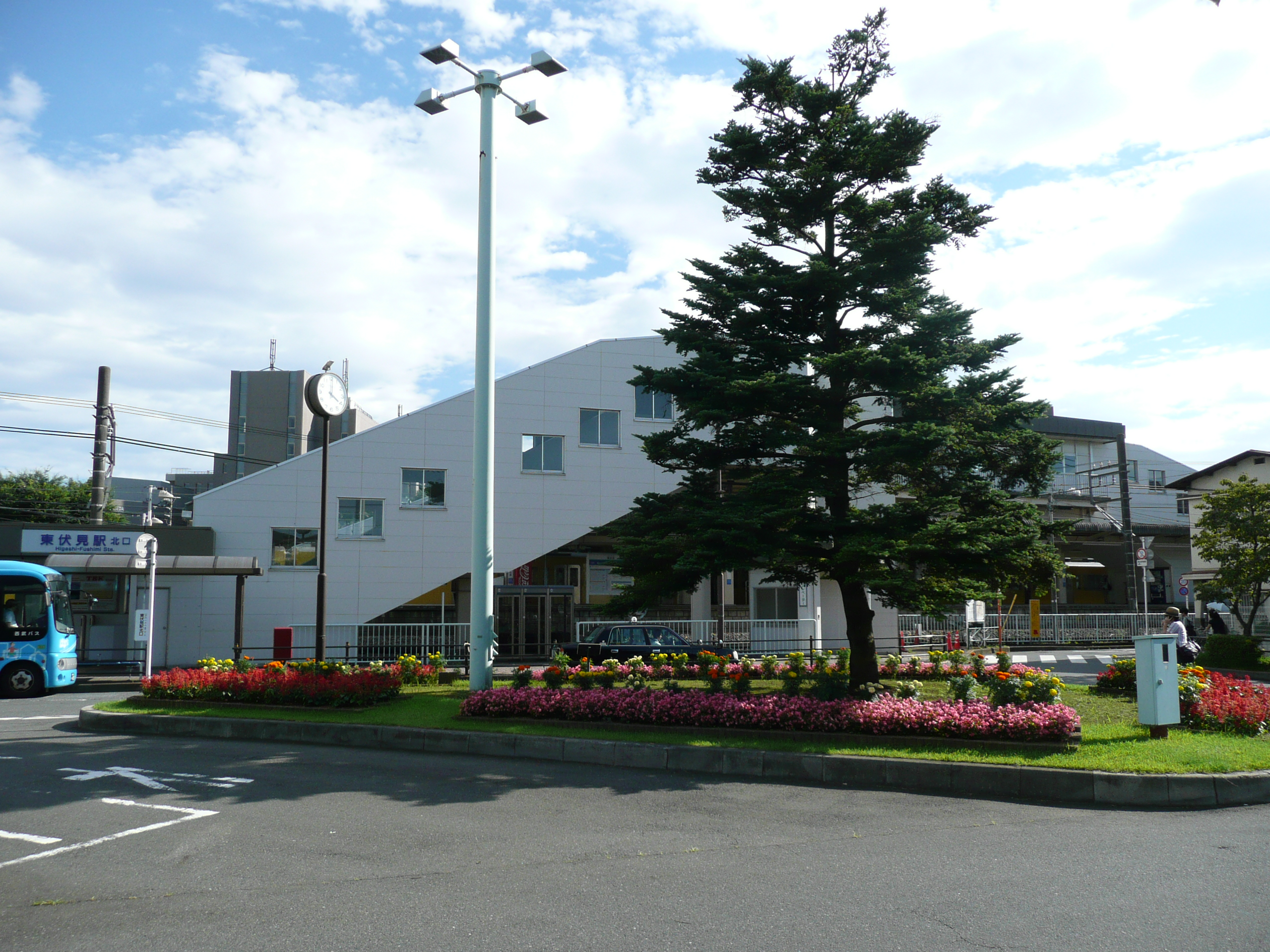 North Entrance of Higashi-Fushimi Station